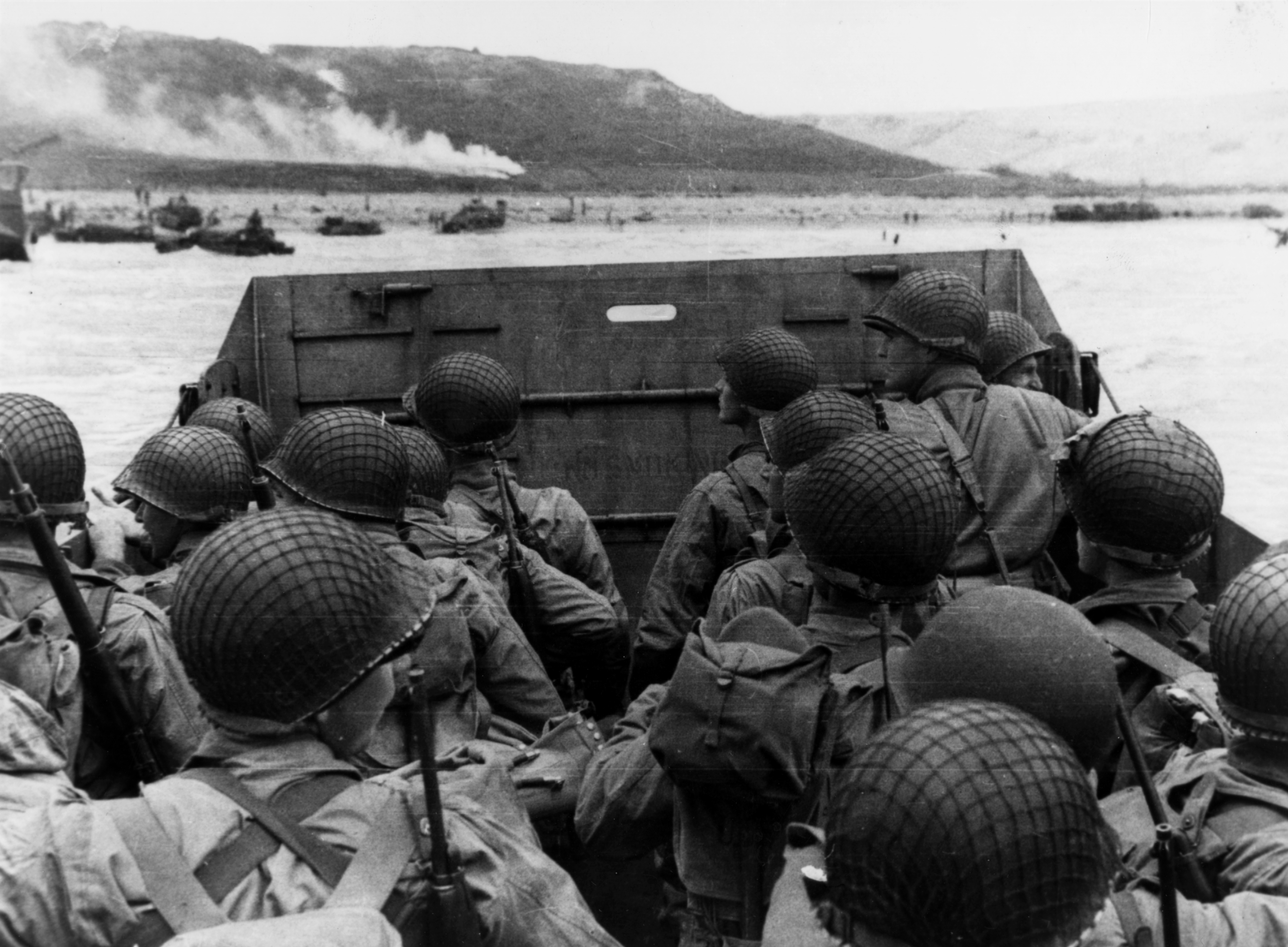 American assault troops Troops in an LCVP landing craft approaching "Omaha" Beach on "D-Day", 6 June 1944. The smoke in the background is from supporting naval gunfire. Note helmet netting; faint "No Smoking" sign on the LCVP's ramp; and M1903 rifles and M1 carbines carried by some of these men.